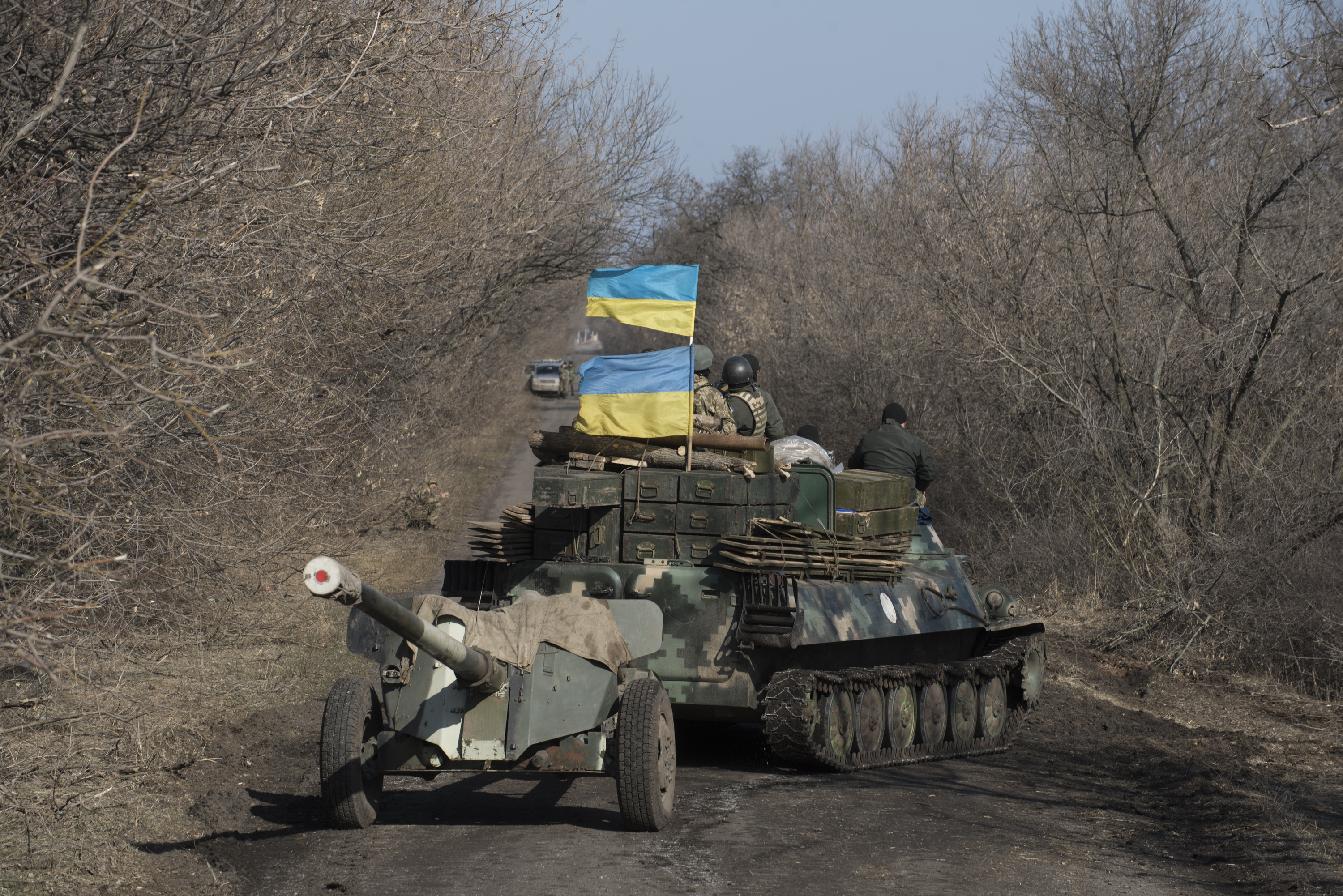 February, 2015